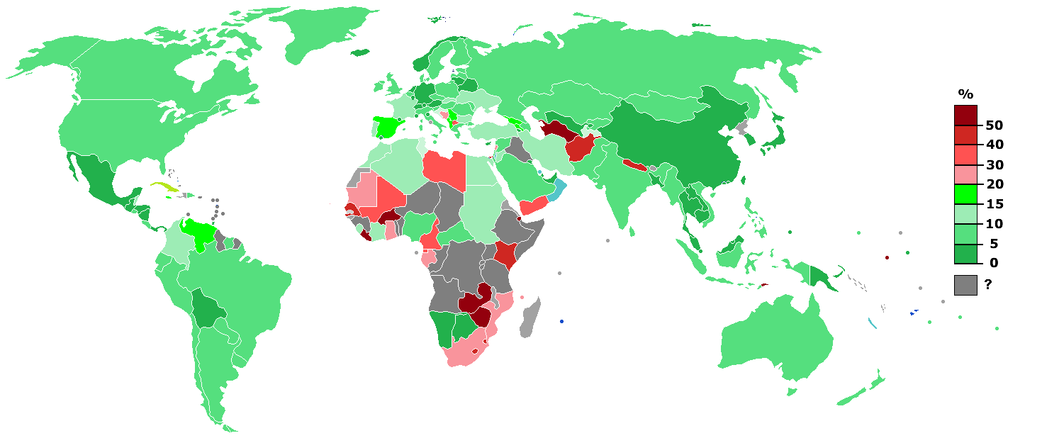 Unemployment rate per country in 2016. Source: International Monetary Fund